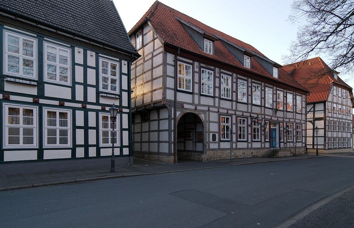 Timber framed house in town of Herford, District of Herford, North Rhine-Westphalia, Germany.